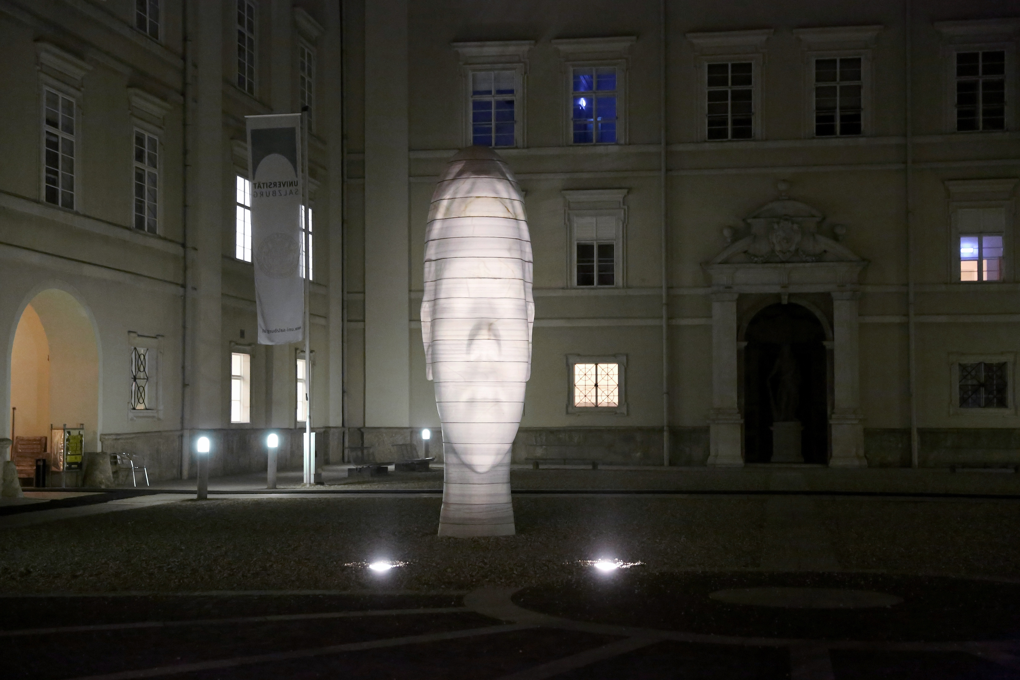 Sculpture "Awilda" by Jaume Plensa in Salzburg, Austria.